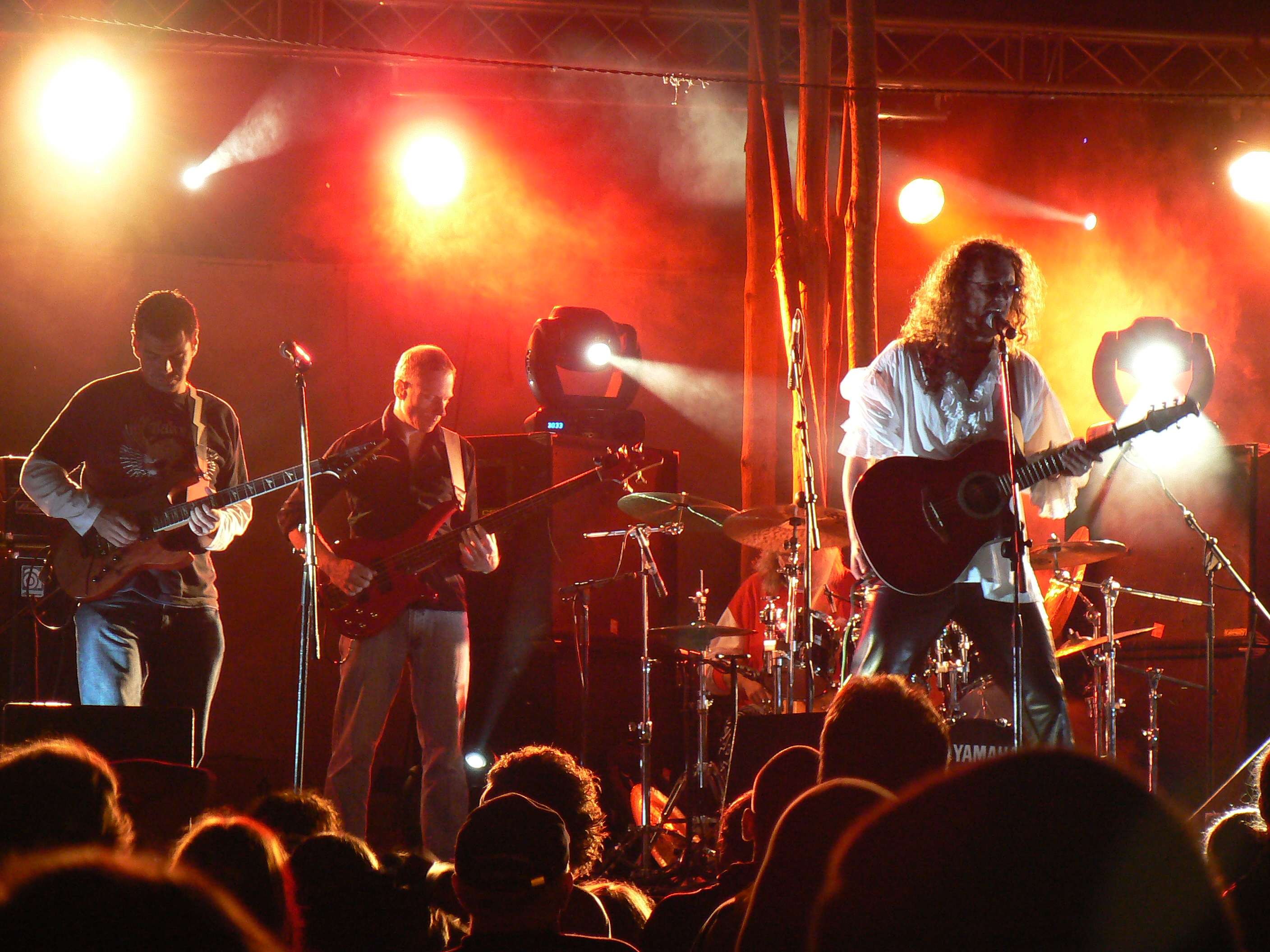 Neo-progressive rock band Arena performing at "Baltic Progressive Festival" (2007) in Kernavė, Lithuania.